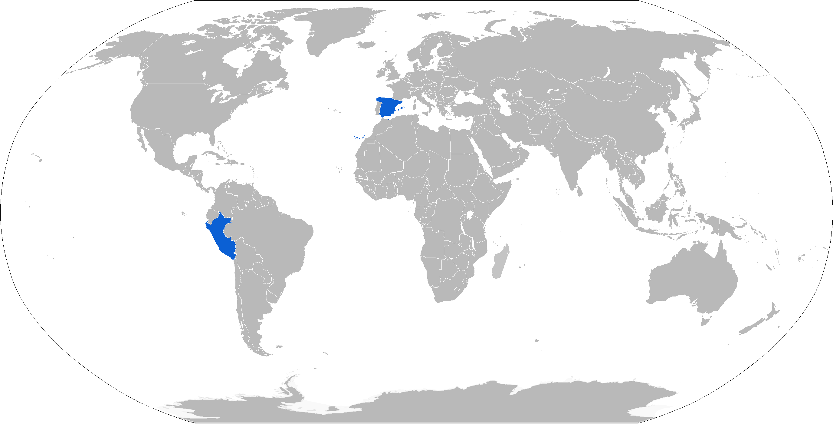 Map with Alcotan-100 operators in blue